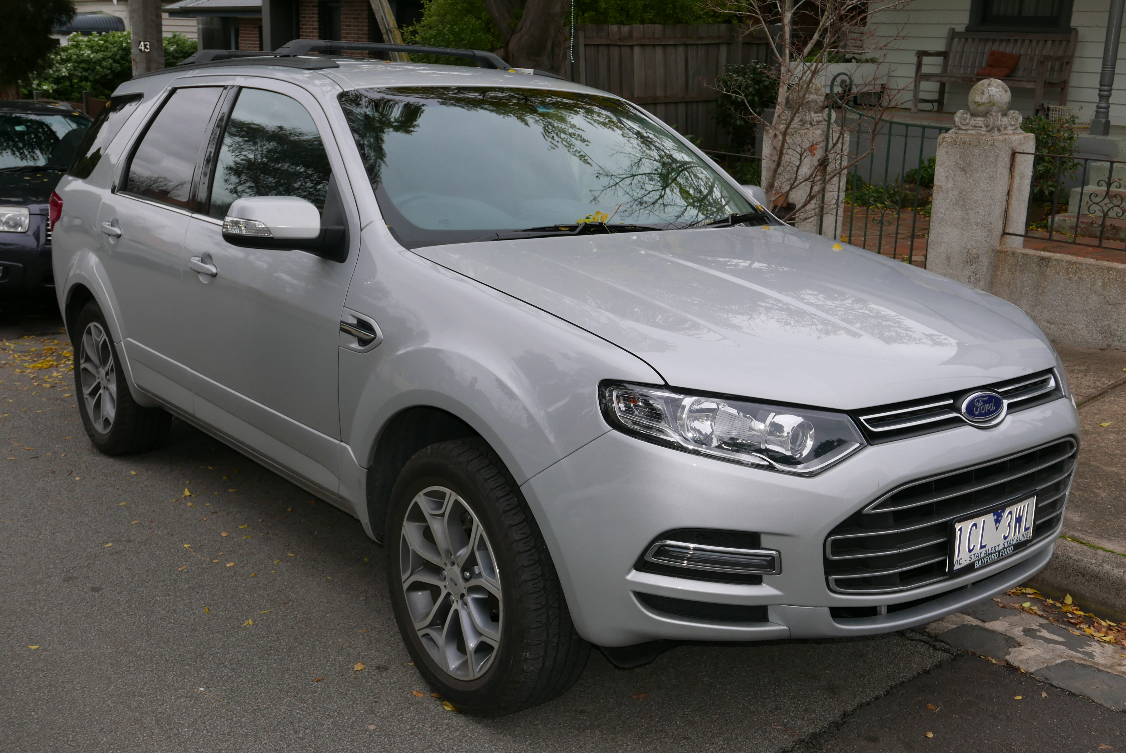 2014 Ford Territory (SZ) Titanium RWD wagon. Photographed in Northcote, Victoria, Australia. Vehicle registration enquiry resultsJurisdictionVictoriaRegistration1CL3WLChassis code6FPAAAJGATEU65780Engine codeJGATEU65780Compliance date2014-06Year of manufacture2014